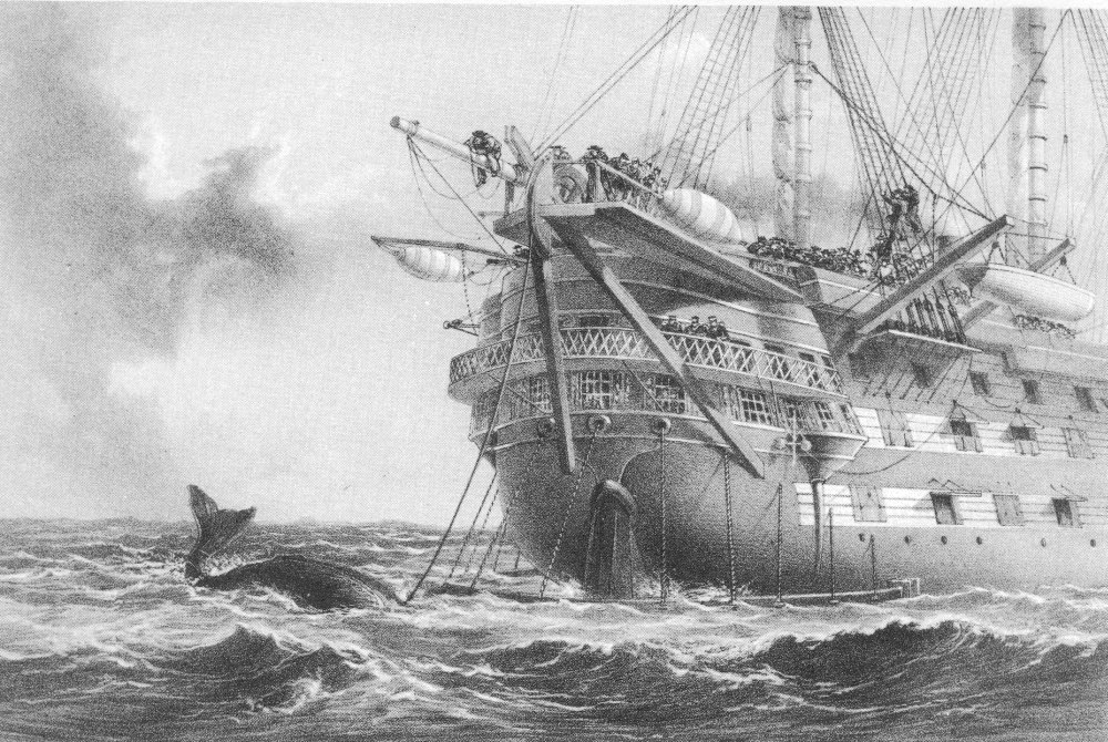 R. M. Bryson, lith from a drawing by R. Dudley London, Day & Sons, Limited, Lith. H.M.S. “AGAMEMNON” LAYING THE ATLANTIC TELEGRAPH CABLE IN 1858. A WHALE CROSSES THE LINE.